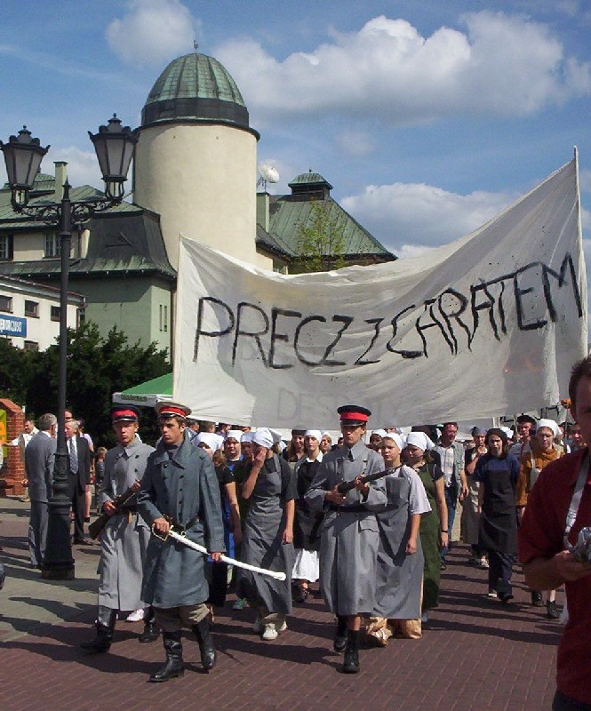 Staging the strike in Żyrardów Textile Factory (1883), during The European Heritage Days 2005 in Żyrardów.